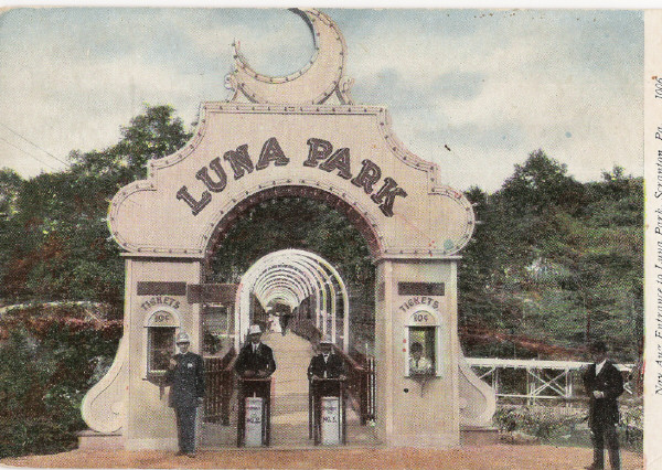 Main entrance to Luna Park, Scranton (1906-1916)